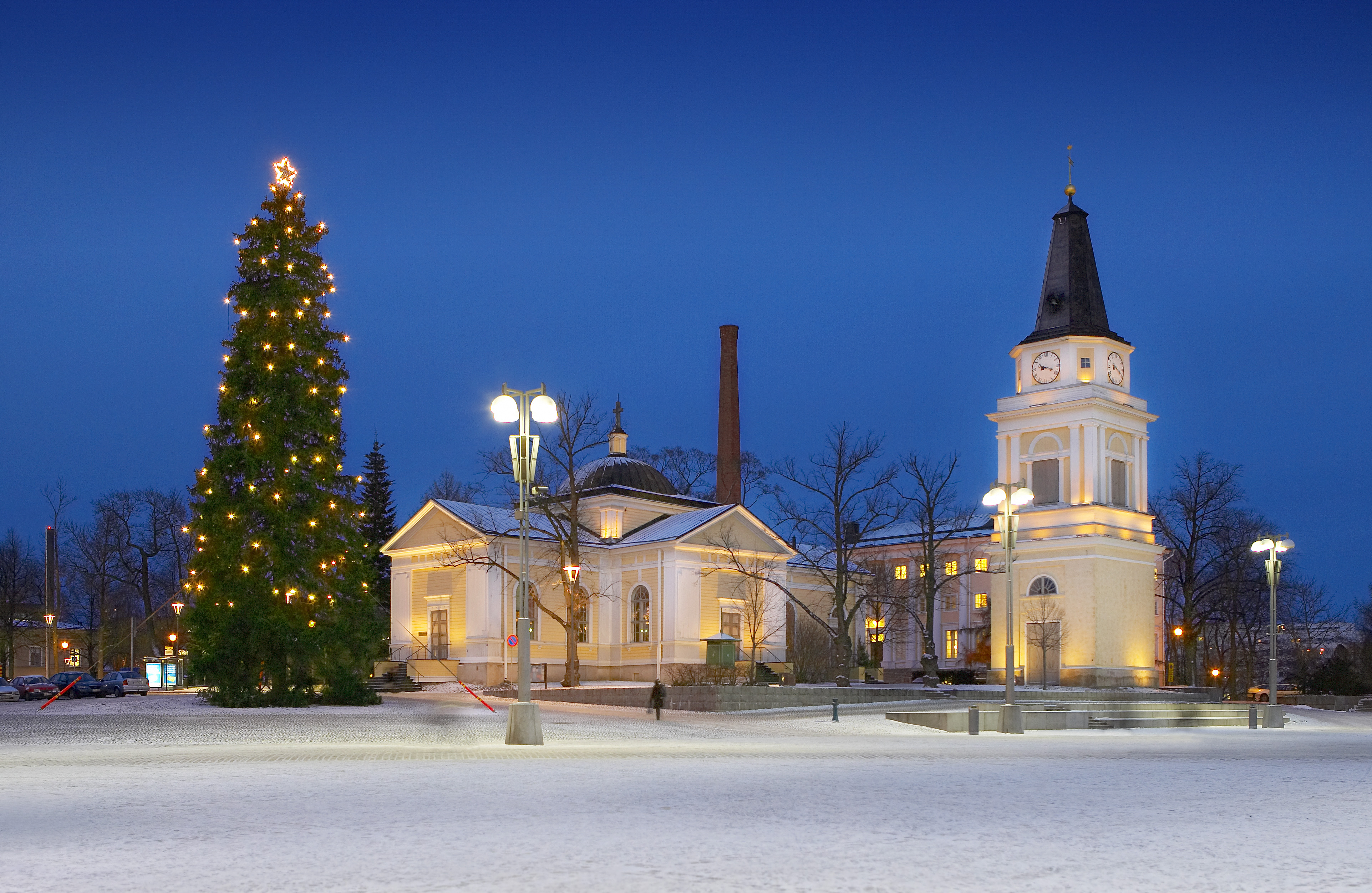 Christmas tree by the Old Church at the Central Square of Tampere, Finland